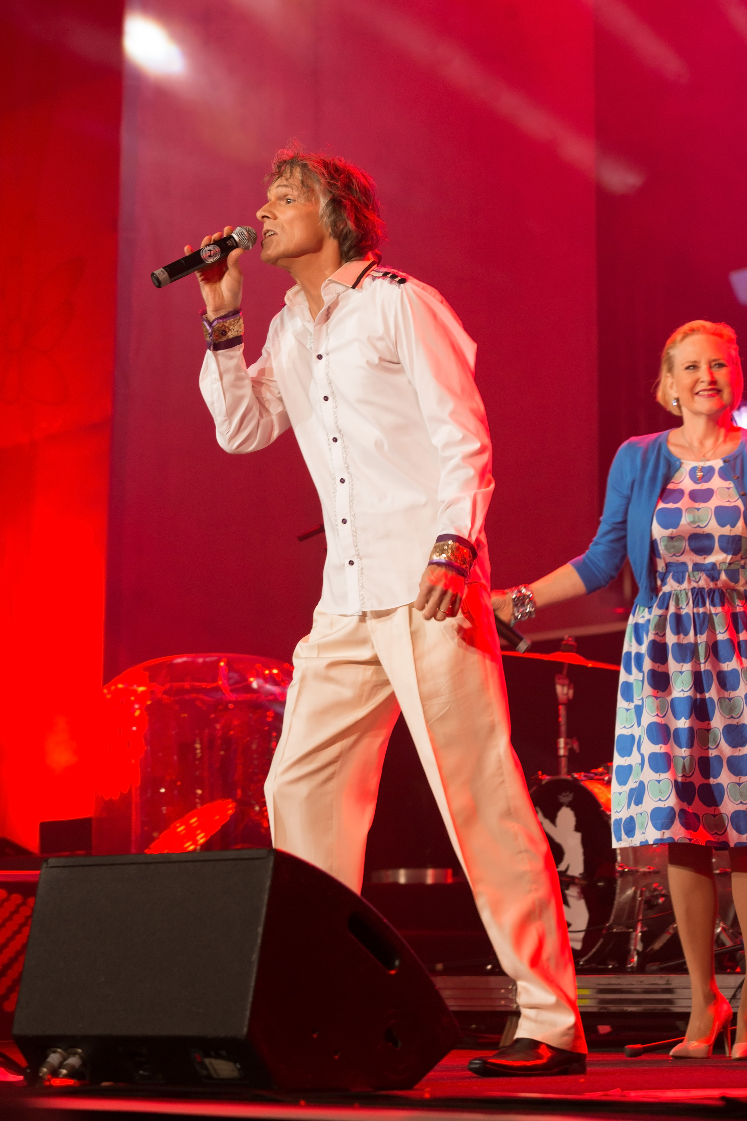 Michael Scheickl and Elisabeth "Lizzi" Engstler, as duo Mess participants of the Eurovision Song Contest 1982, with The Bad Powells, concert at Eurovision Village on Rathausplatz, a public event location of the Eurovision Song Contest 2015 in Vienna, Austria.